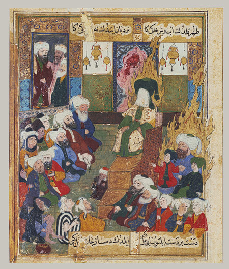 Leaf from Maqtal-i al-i Rasul ("The Murder of the House of the Prophet"), end of 16th century; Ottoman - Baghdad, Iraq. Muhammad is preaching in the mosque in Medina. On his left are Ali and his sons Hasan and Husayn.